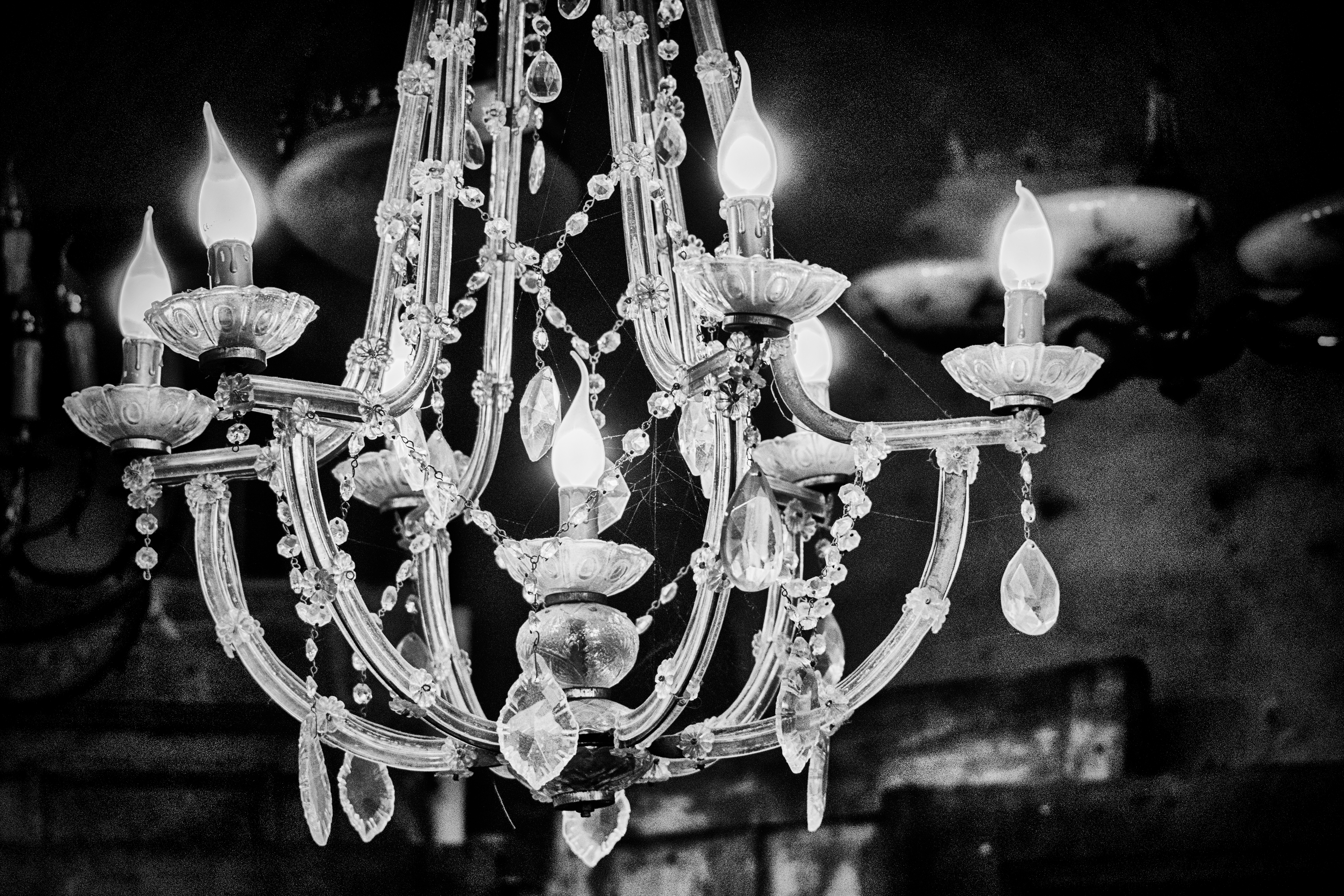 There is life in the oldies